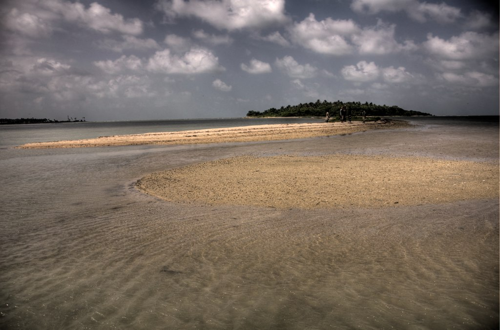 Jaffna island